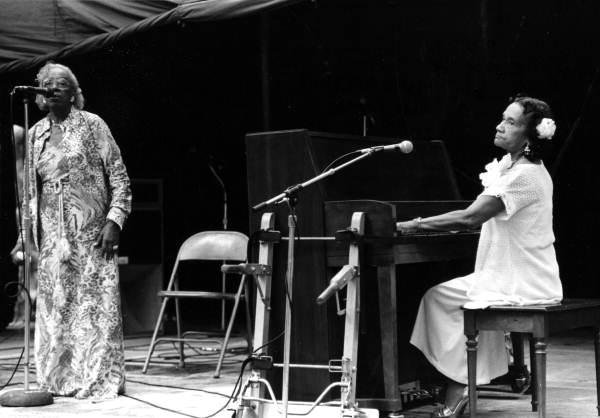 Local call number: FP82445 Title: Mary McClain (L) and Ida Goodson performing at the 1982 Florida Folk Festival: White Springs, Florida Date: May 30, 1982 Photographer: Photographic Collection" AND photographer:"Marshall, John, Fieldworker."&searchbox=1&query=Marshall, John, Fieldworker.&year=&gallery=0&search-type= Physical descrip: 1 photoprint - b&w - 4 x 5 in. Series Title: Repository: 500 S. Bronough St., Tallahassee, FL 32399-0250 USA. Contact: 850.245.6700. Persistent URL